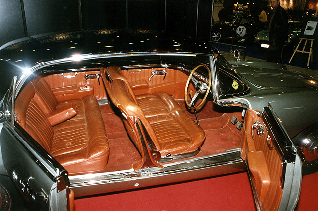 Lancia Florida II from 1957